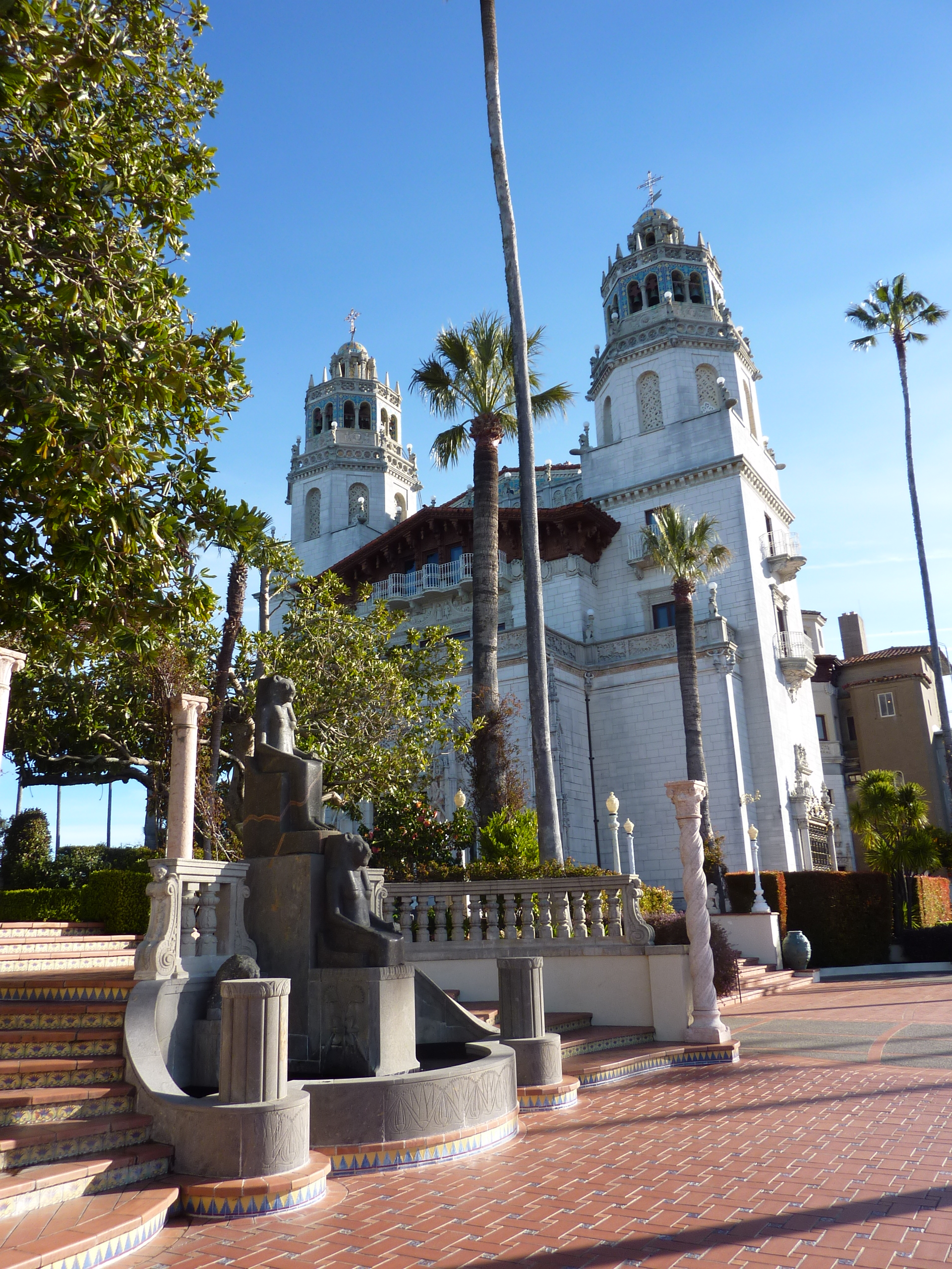 Fountain and garden terrace, Hearst Castle, California Hearst Castle, California